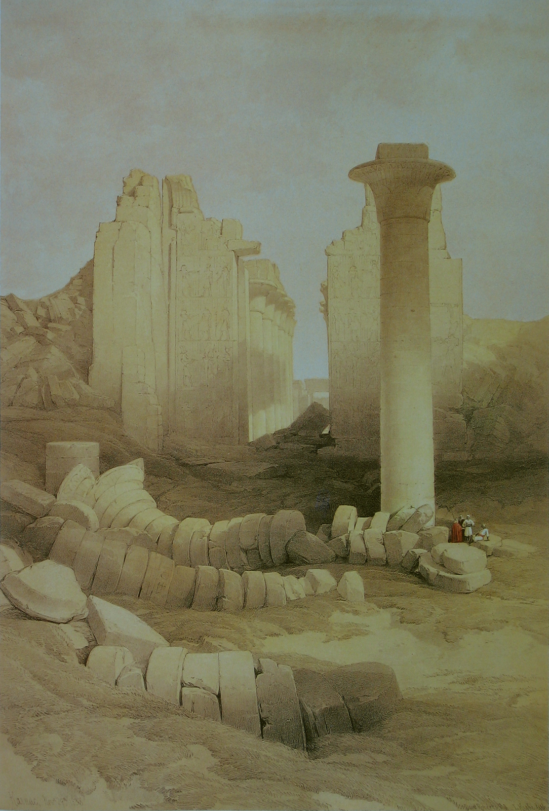 The Dromos, or first court of the Temple of Karnak